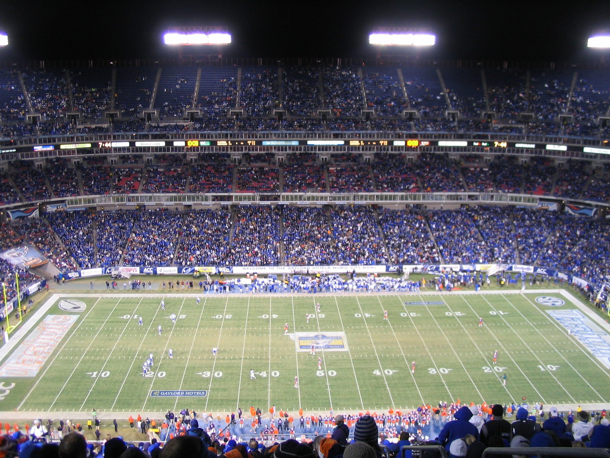 The en:2009 Music City Bowl: First Quarter, 10:05 remaining. View of the entire stadium. (Nashville, Tennessee, USA)